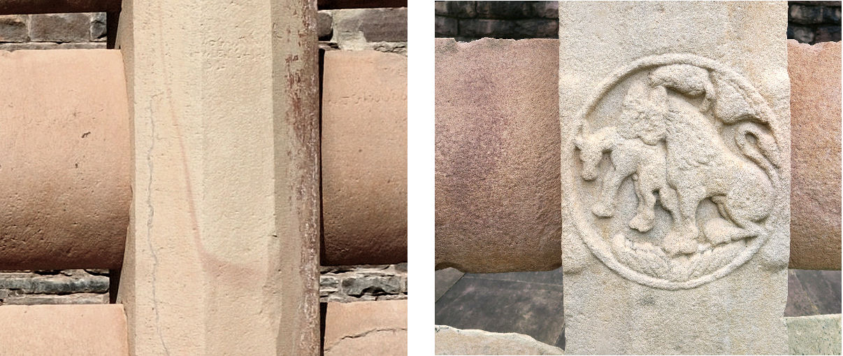 Sunga railings detail